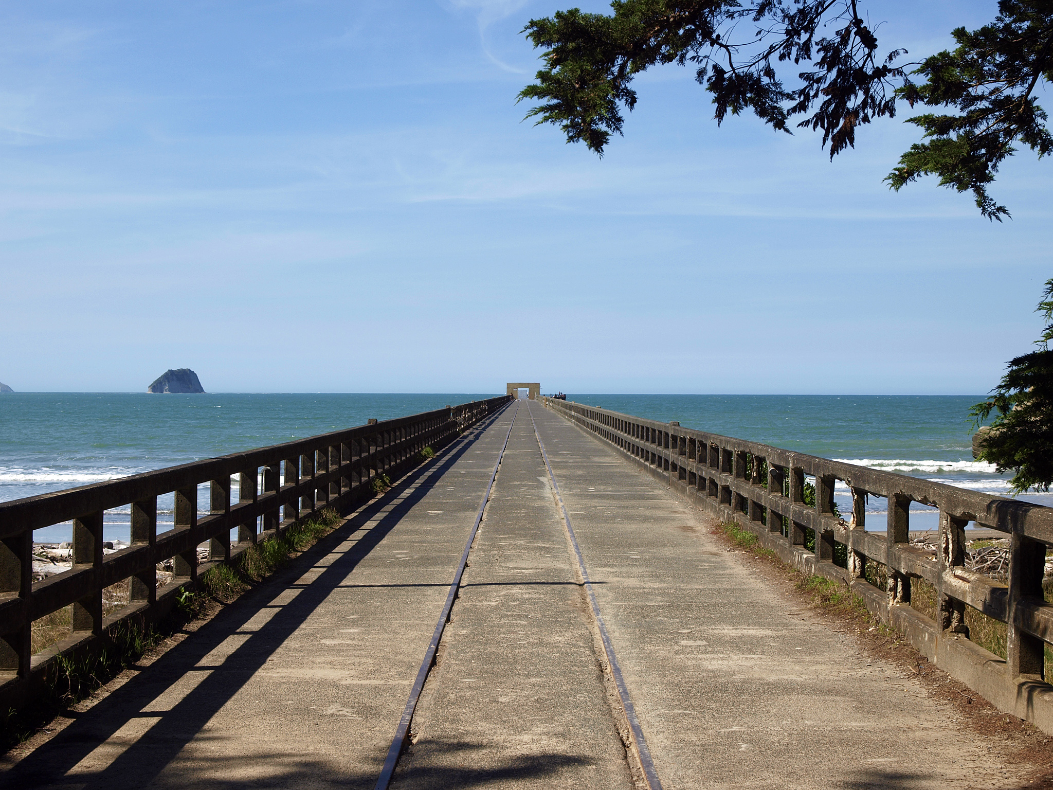 Tolaga Bay Wharf, Gisborne Region, New Zealand. Idea 1920, signing contract 1924, start of construction 1926, opening 1929.